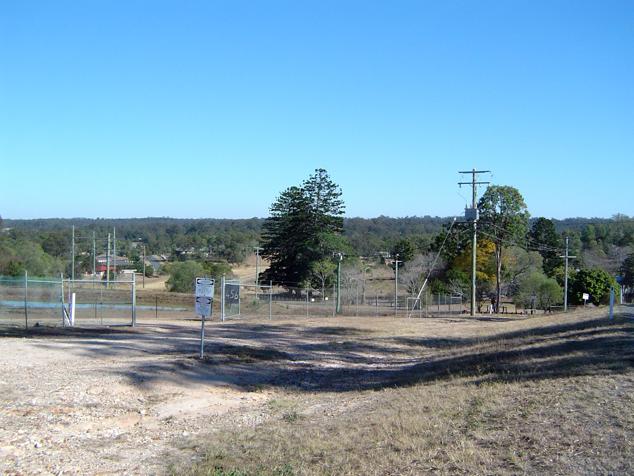 Photo of land adjacent to Pine Mountain Road at Muirlea, City of Ipswich, Queensland, Australia. View is towards Blacksoil in the north east direction.